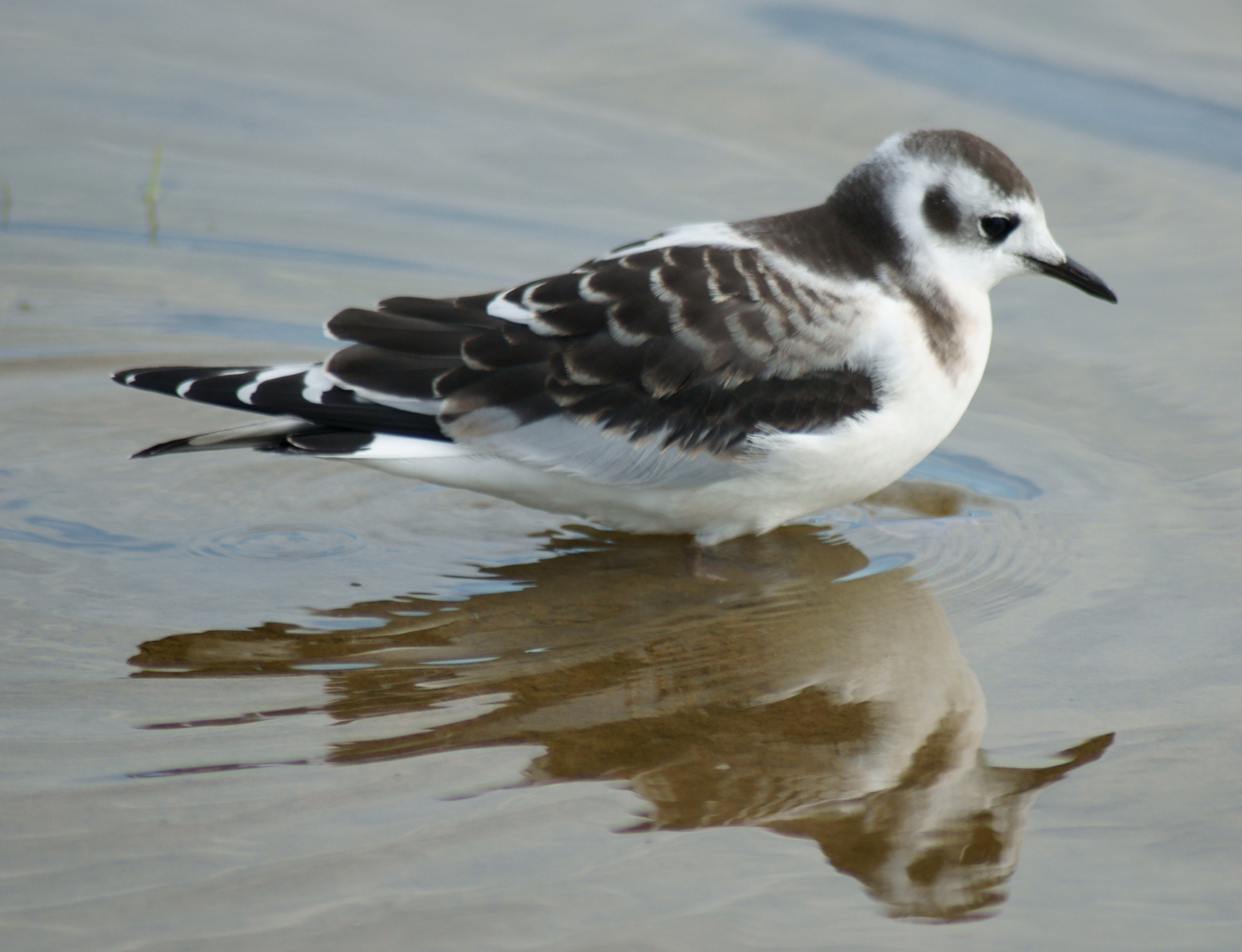 Little Gull (Hydrocoleus minutus) in Yyterin lietteet.